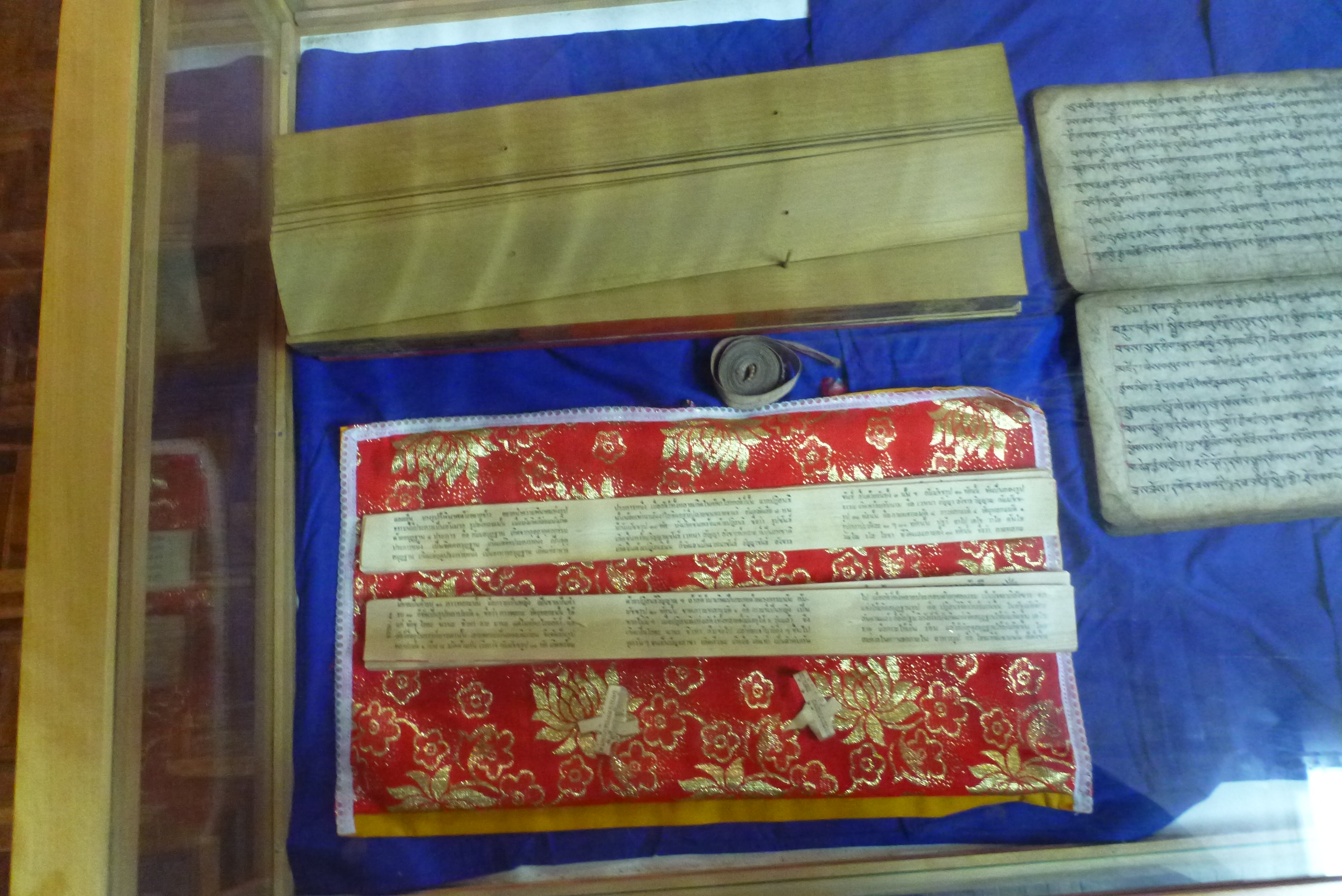 A book from the National Library of Bhutan, located in the capital Thimphu